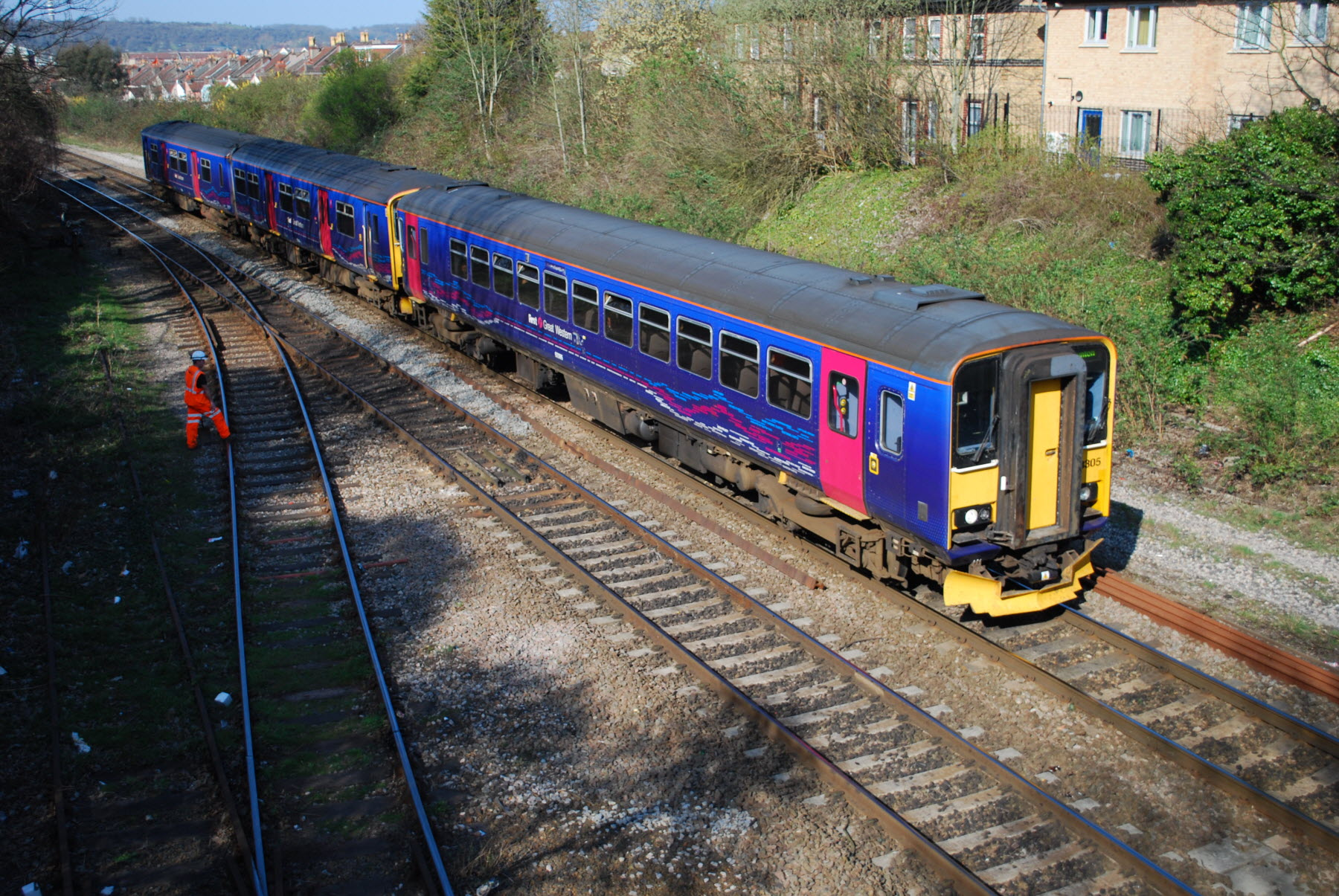 Leyland Class 153 "Super Sprinter" diesel railcar No.153 305 of First Geat Western in "local lines" livery (with a FGW Class 150/2 2-car dmu) approaching Lawrence Hill on a Cardiff - Taunton service, 03/1108.